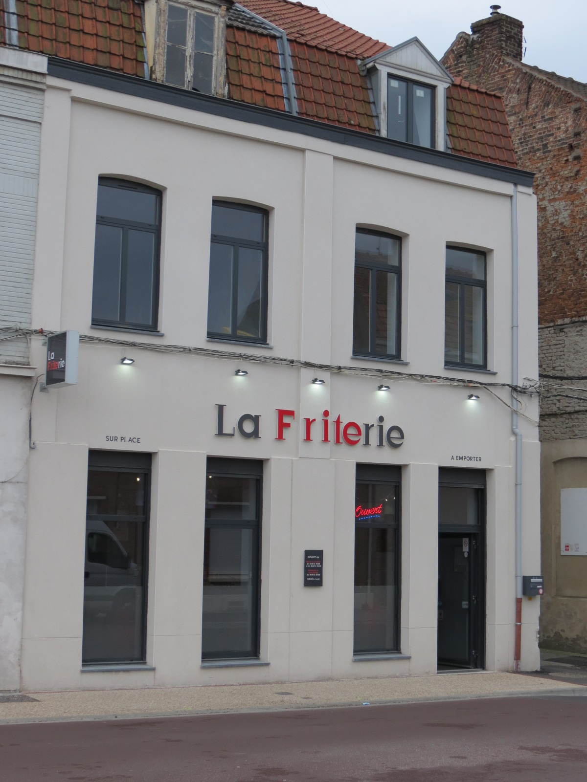 Chips shop